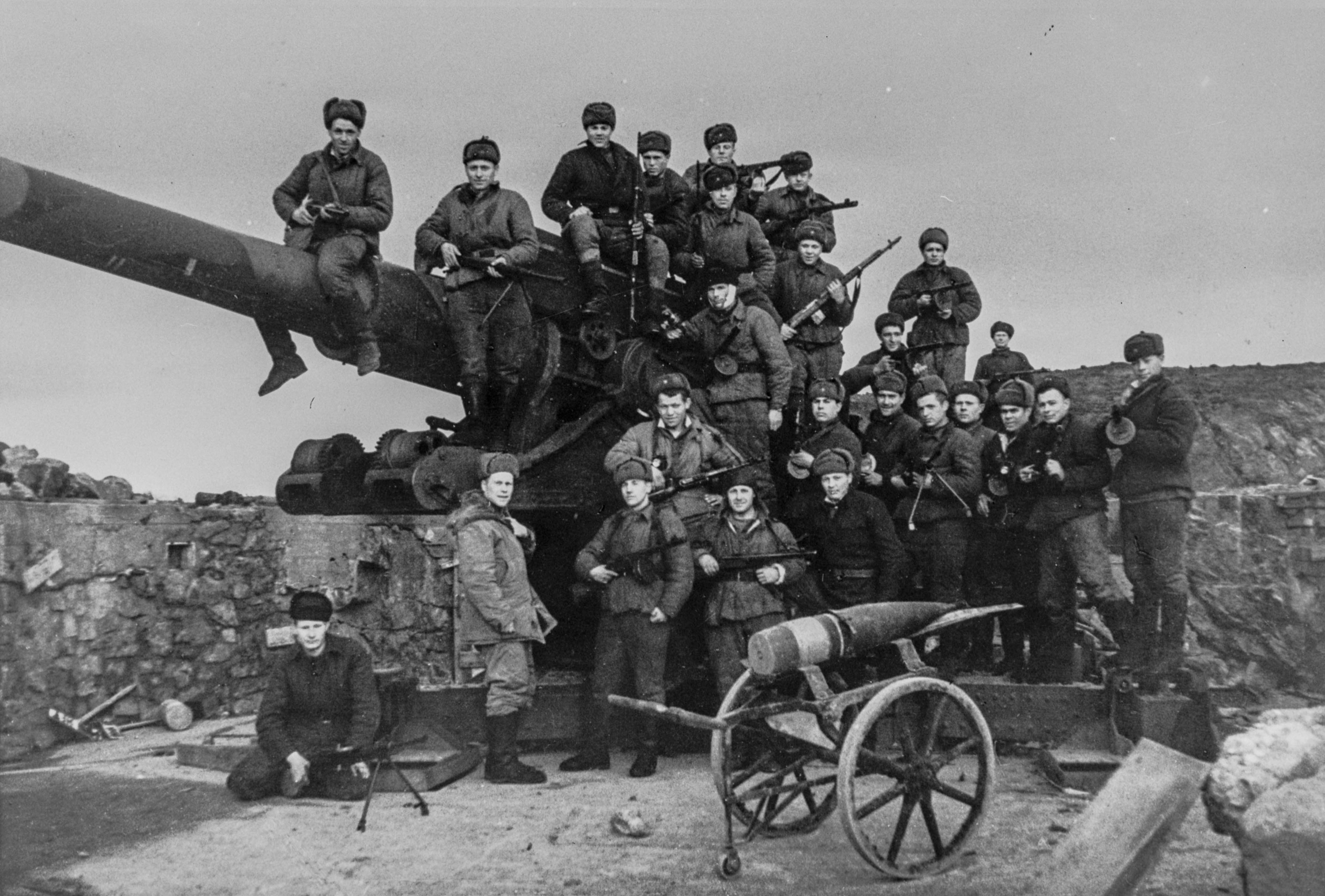 HKB 2 / 773 Liinahamari on the Pechenga Bay in current day Russia Original bildetekst: North Norway: A Nazi coastal anti-landing battery seized by Soviet forces outside Kirkenes. Nazi-batteri beslaglagt av sovjetiske styrker utenfor Kirkenes Russisk kilde. Arkivreferanse: NTBs krigsarkiv i Riksarkivet (RA/PA-1209/U/Uj/L0219a)